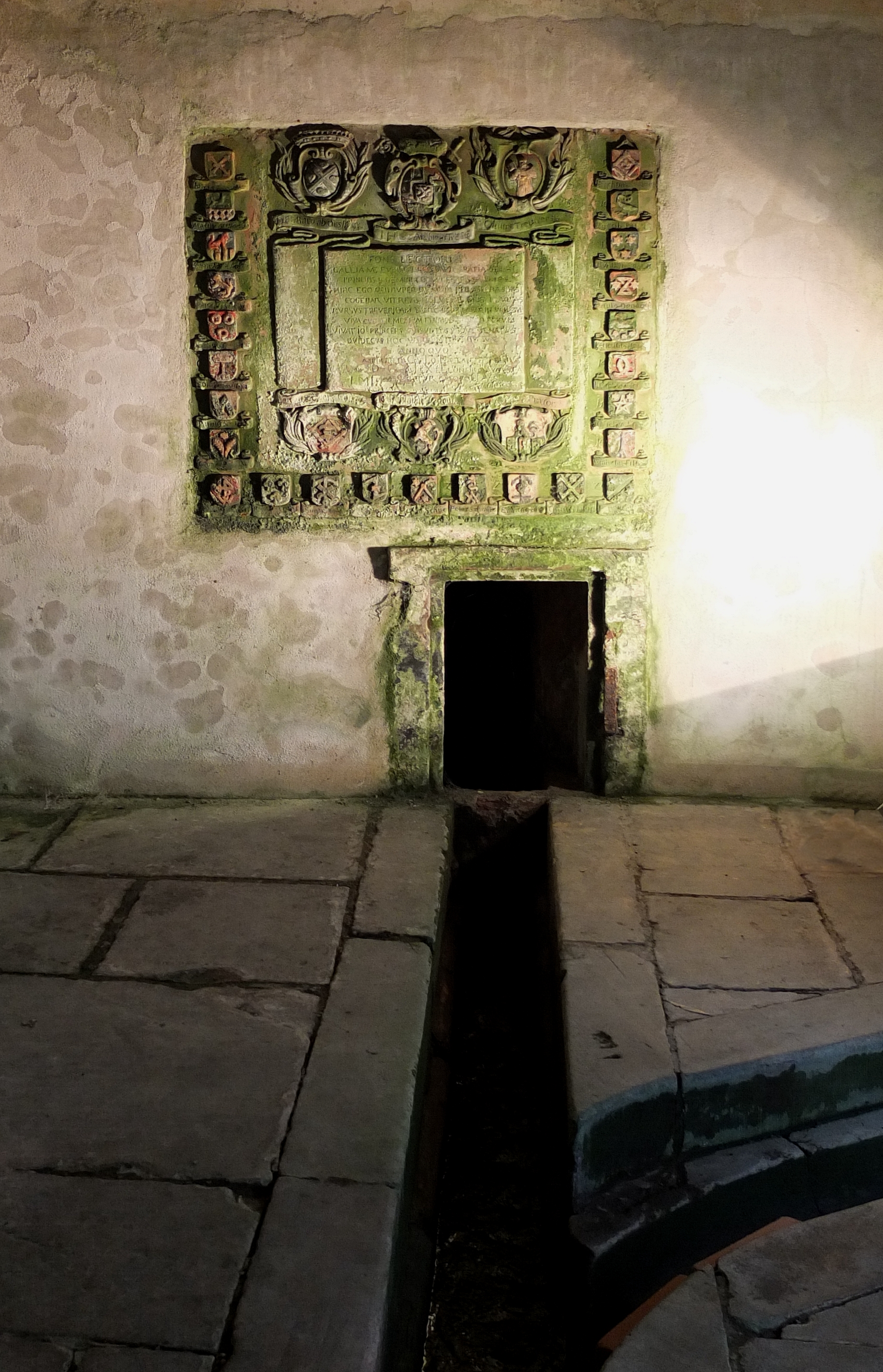 Interior of "Herrenbrünnchen", spring house (1682) in Trier-Heiligkreuz, Germany. This is a photograph of an architectural monument.It is on the list of cultural monuments of Trier-Heiligkreuz